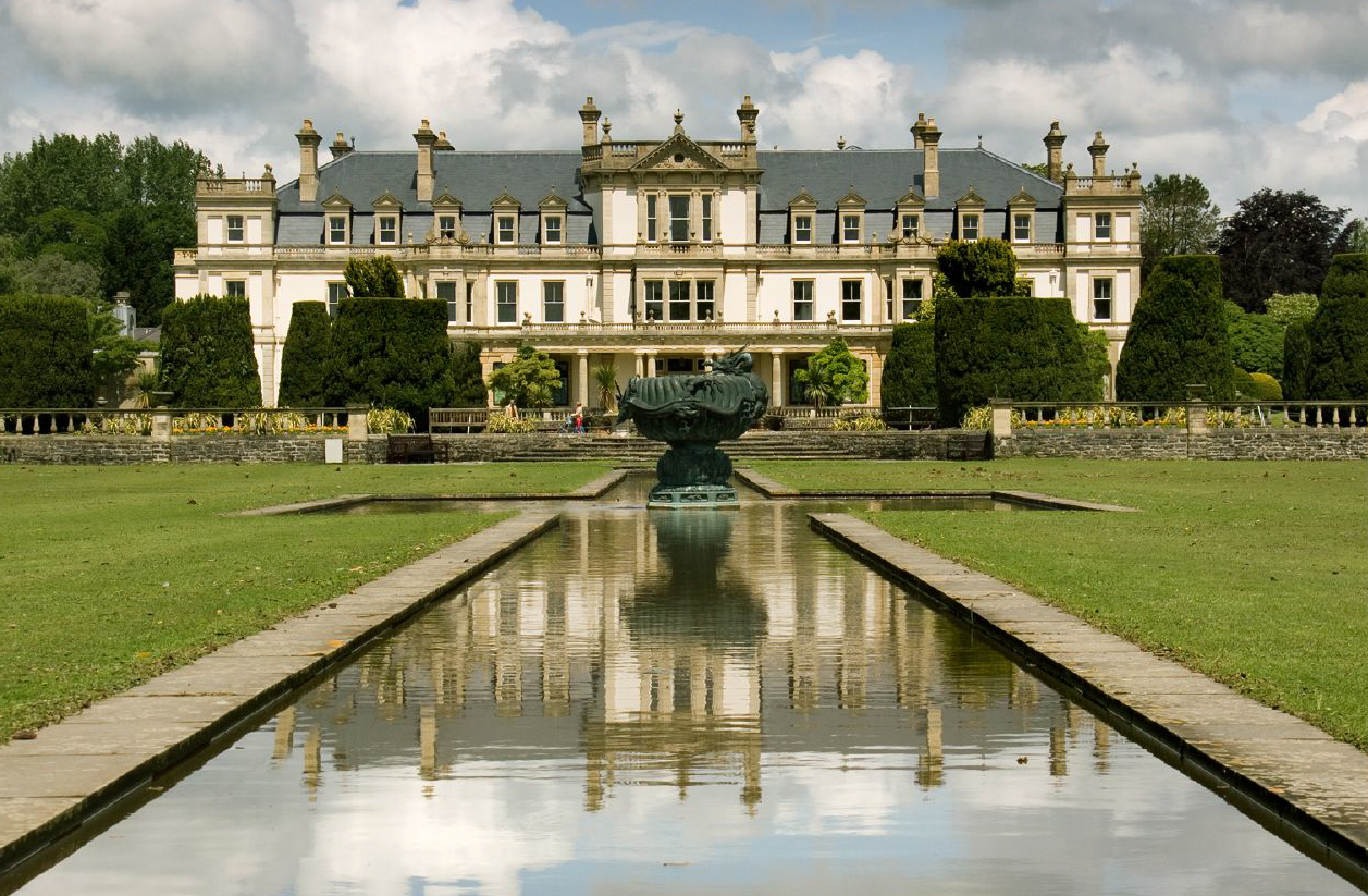 Dyffryn House is a large country manor in the Dyffryn Gardens near the village of Dyffryn in the Vale of Glamorgan, Wales.